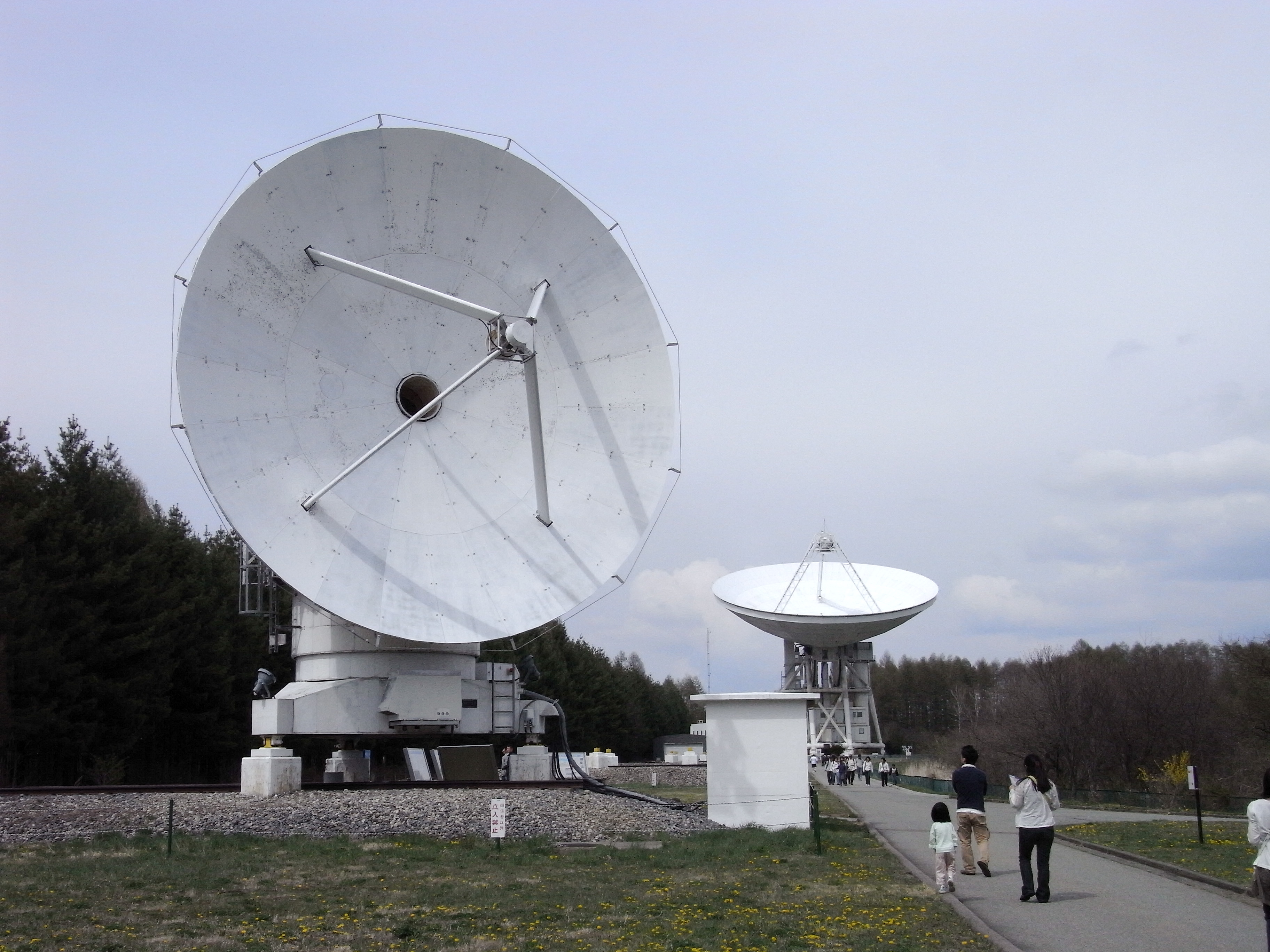 Nobeyama, Nagano prefecture, Japan. National Astronomical Observatory of Japan.